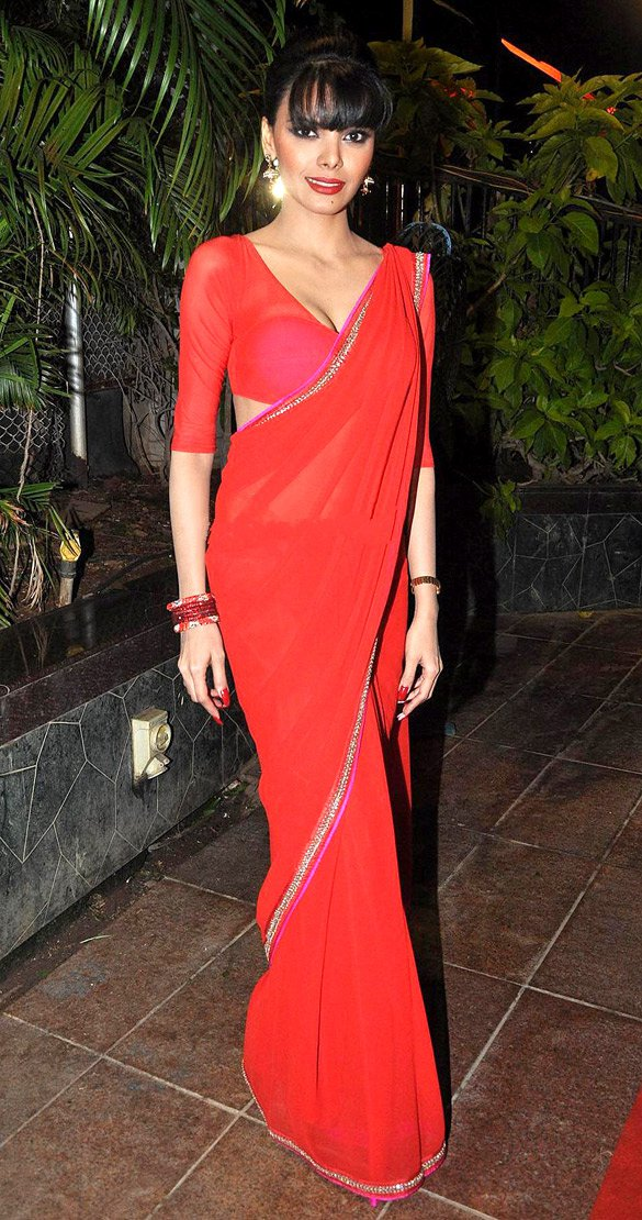 Sherlyn Chopra graces Charan Singh Sapra's Lohri night in January 2013.